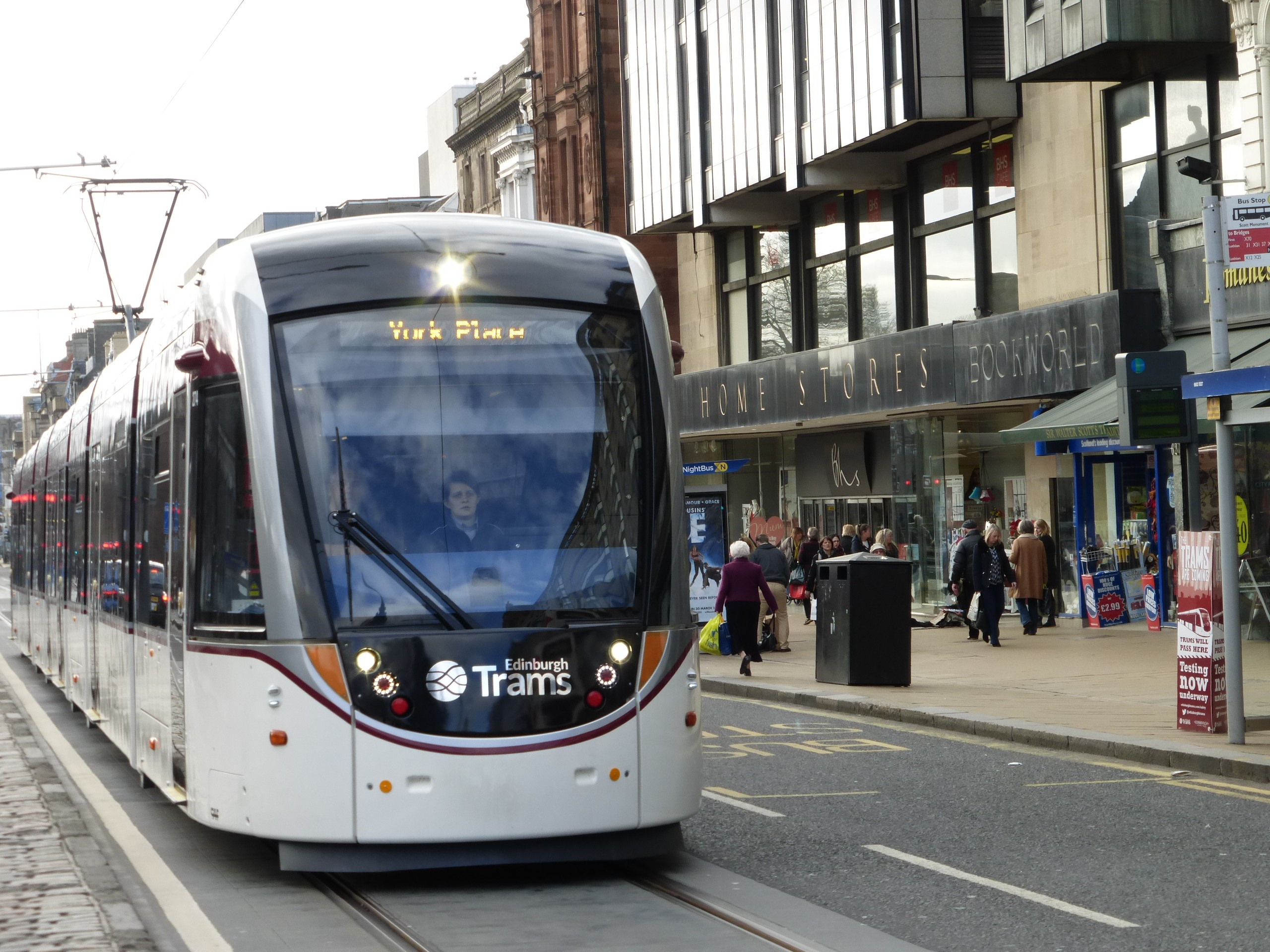 Edinburgh tram, driver training, March 2014